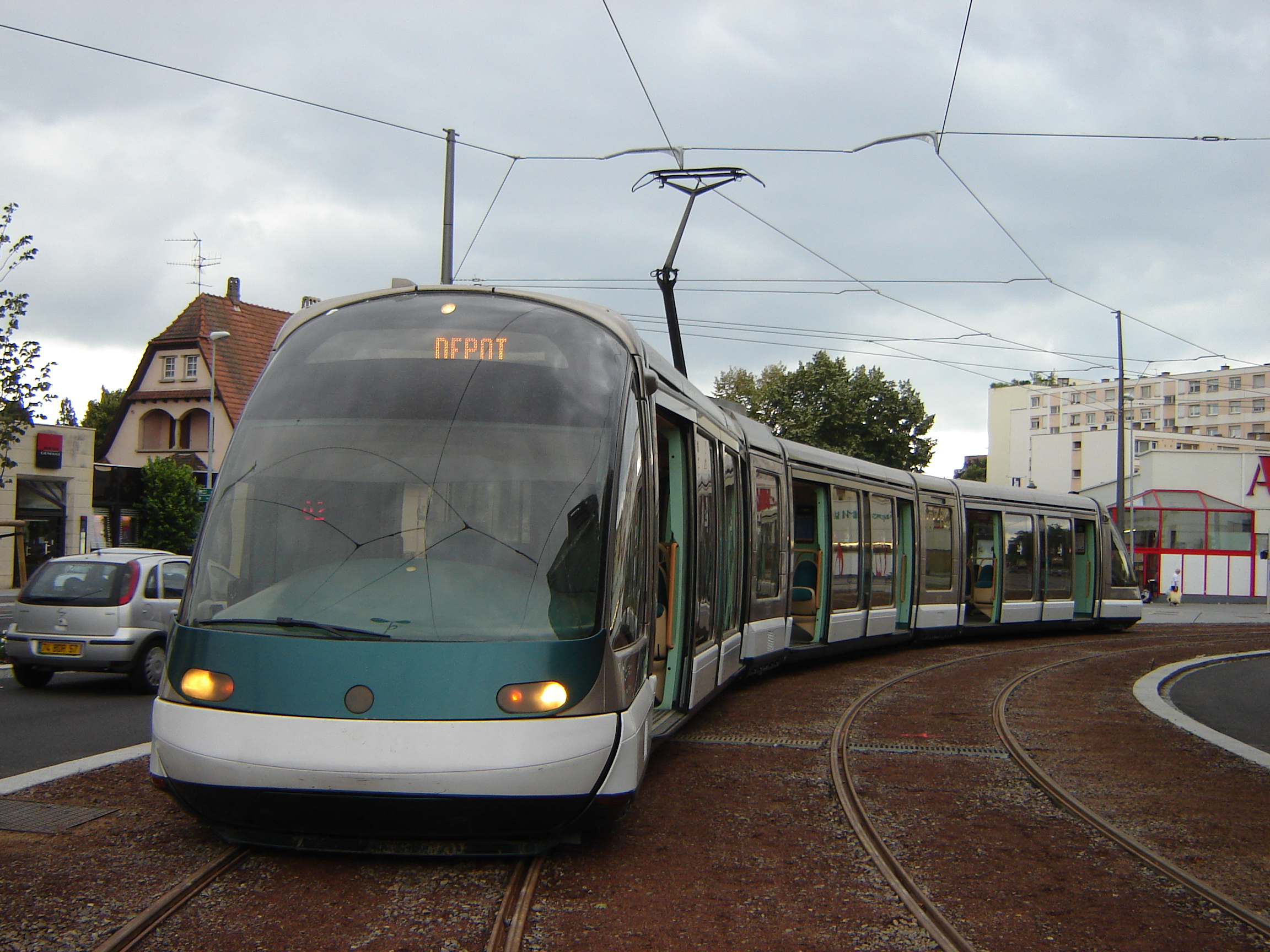 Eurotram from Strasbourg